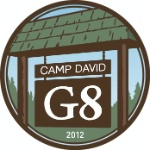 G82012 Logo